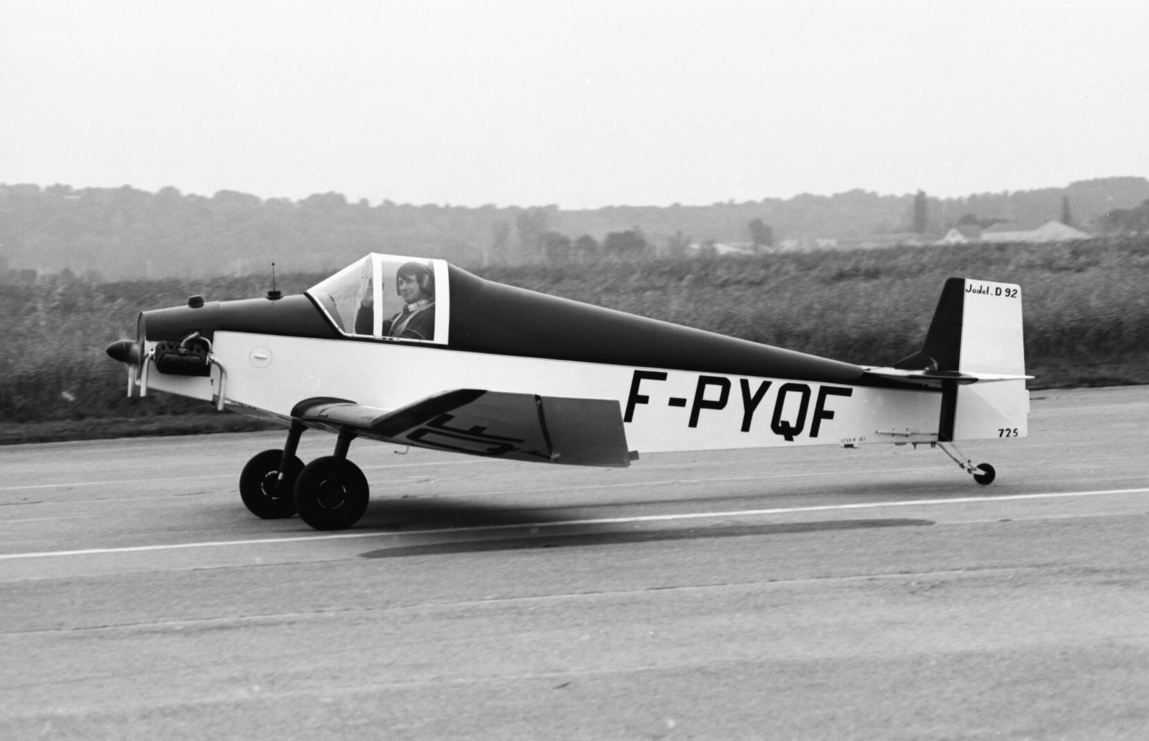 Jodel D 92, photo taken at R.S.A European rally Brienne-Le-Chateau 1984